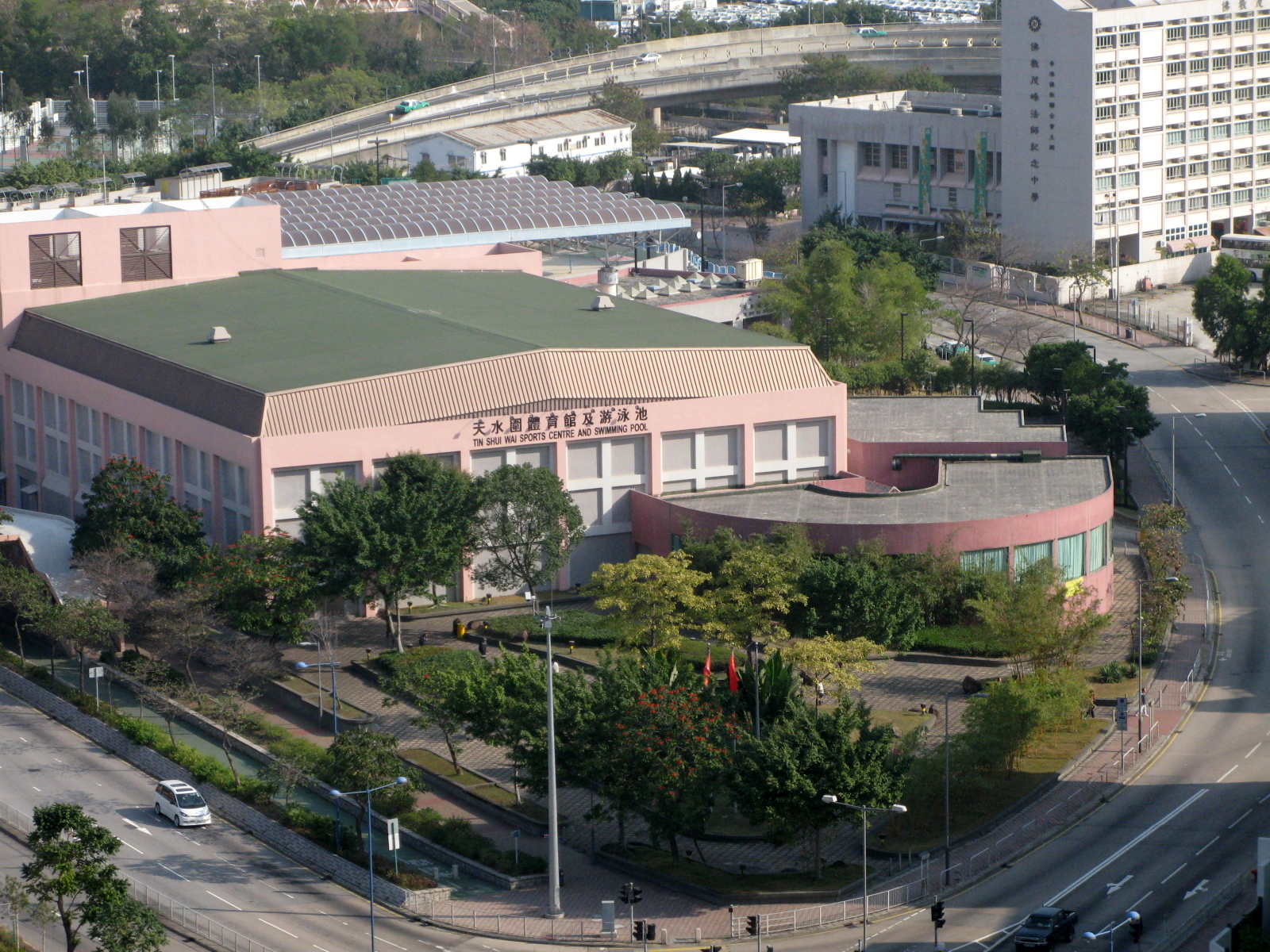 Tin Shui Wai Sport Centre Overview 天水圍體育館